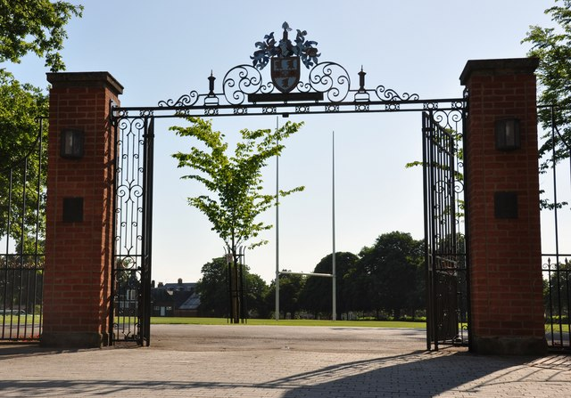 Gates to Rugby School As seen from Barby Road, Rugby